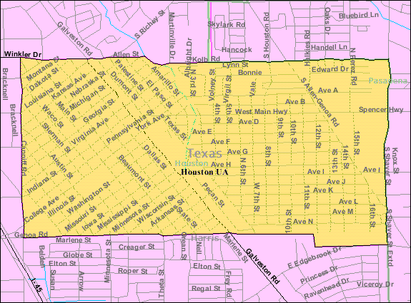 Map of South Houston, Texas